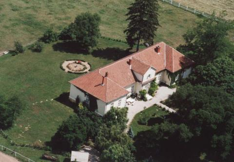 Somogytúr, Hungary, aerialphotography, Inkey-kastély